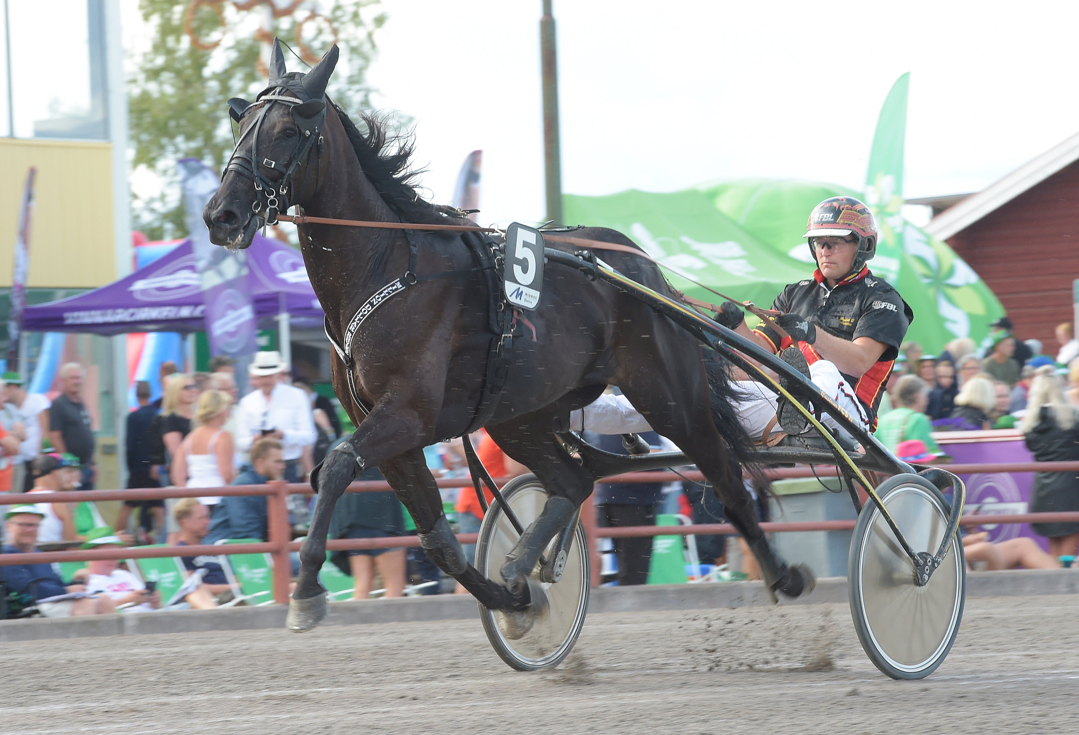 Milliondollarrhyme and Fredrik B. Larsson. Rättvik, August 4, 2018.